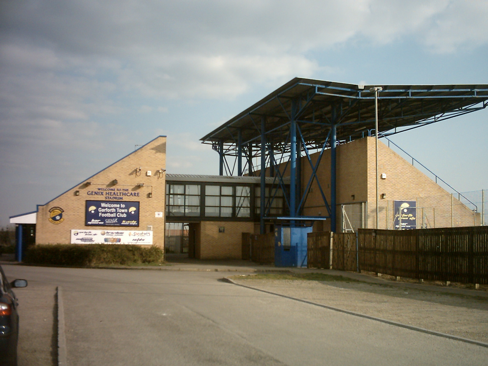 The Exterior of the Main Stand at the Genix Healthcare Stadium in Garforth West Yorkshire, home to Garforth Town. Taken on the afternoon of the 1st April 2009.